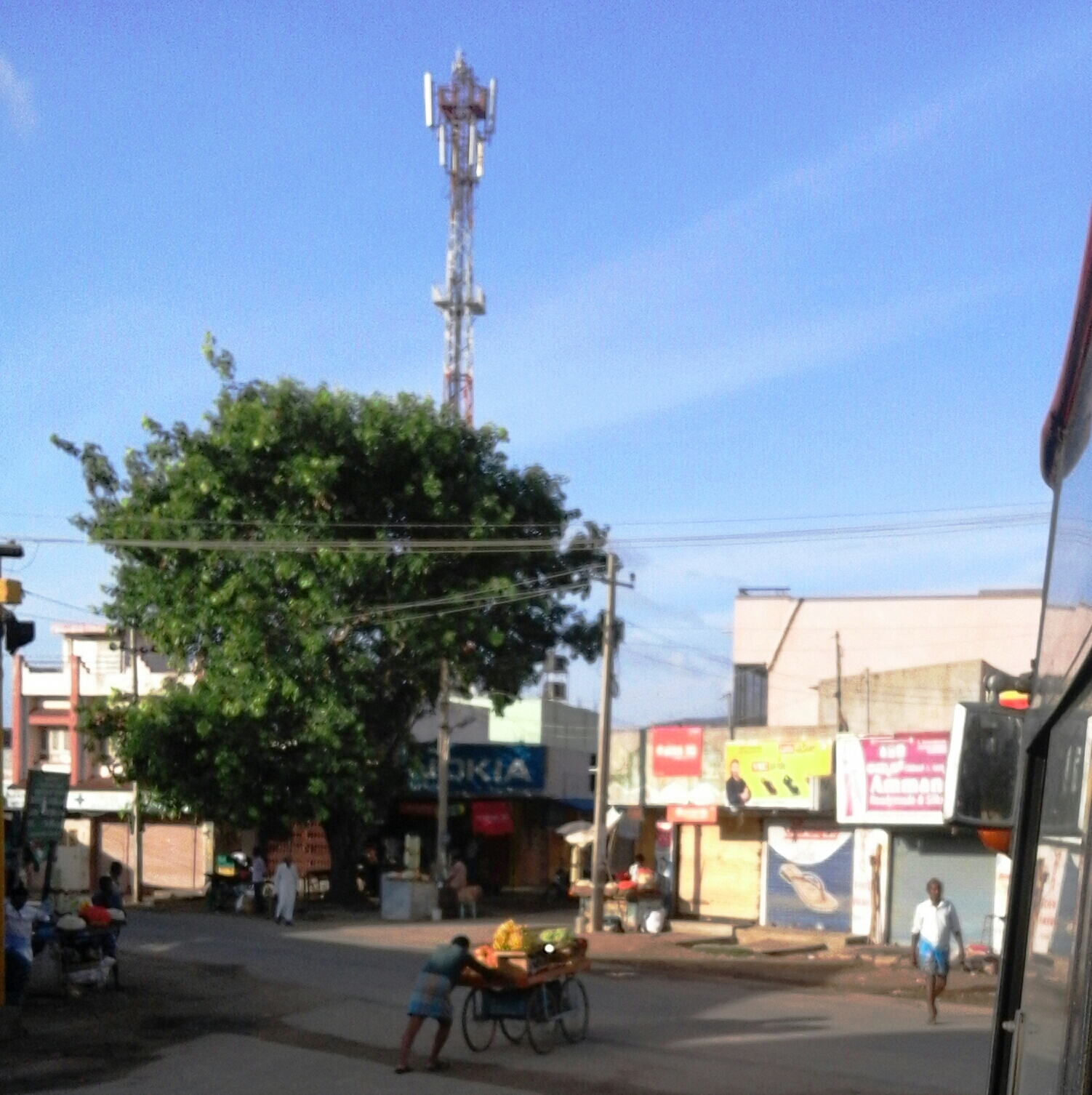 Kollegal town, Chamaraja Nagar district, Karnataka Province, India